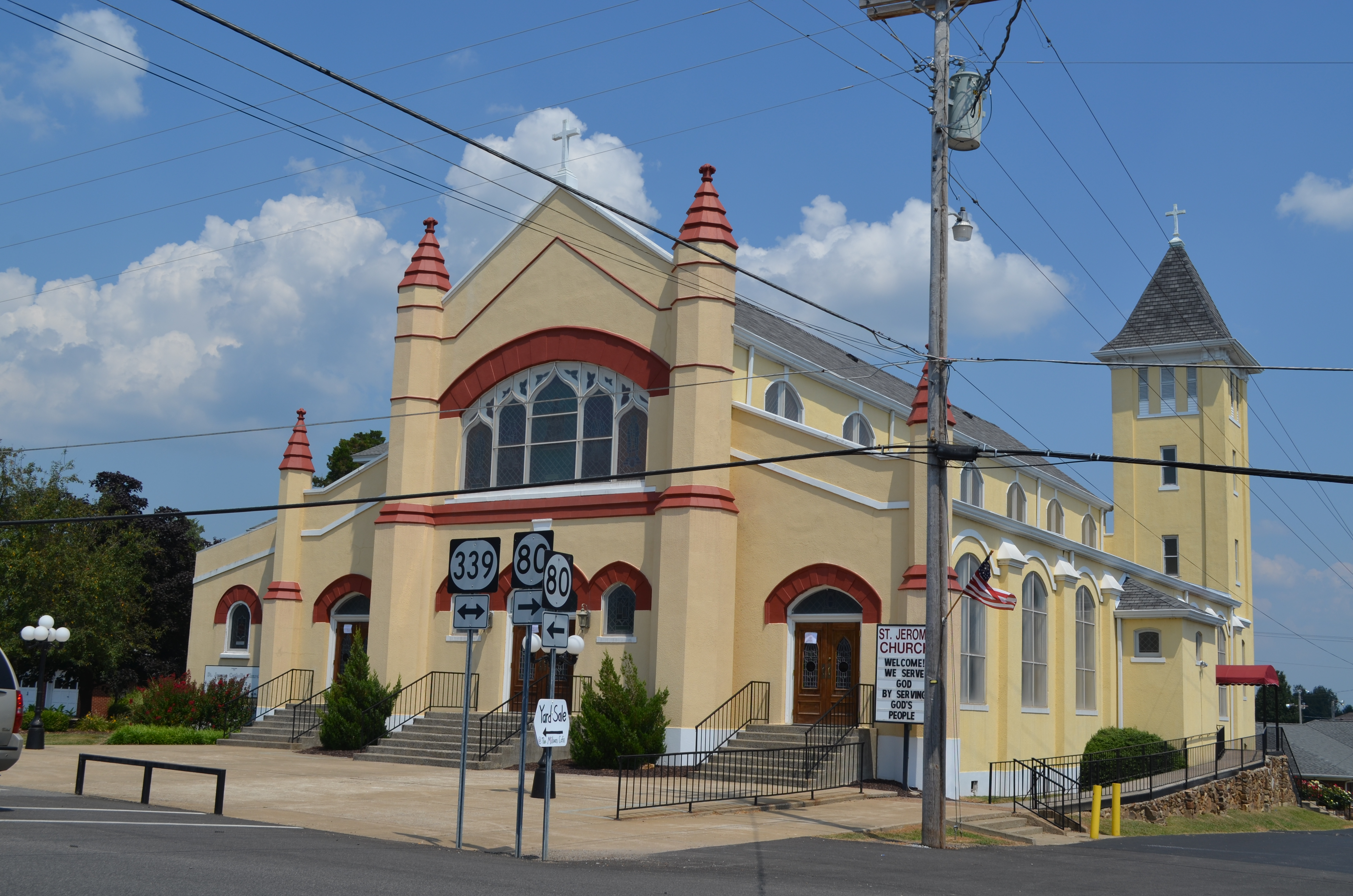 St. Jerome's Catholic Church Fancy Farm Kentucky